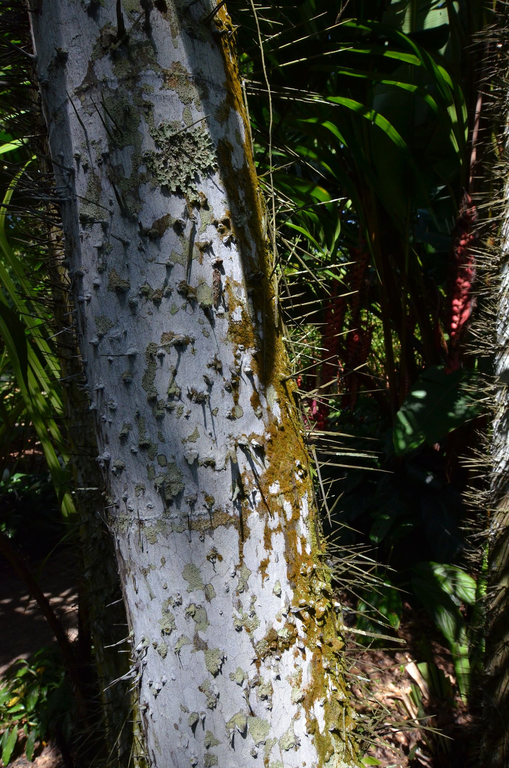 Oncosperma tigilarium or Nibung palm is a species of palm tree in the Arecaceae family.